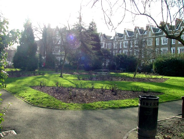 Lonsdale Square Gardens. Gardens in a lovely and unique square in Islington.